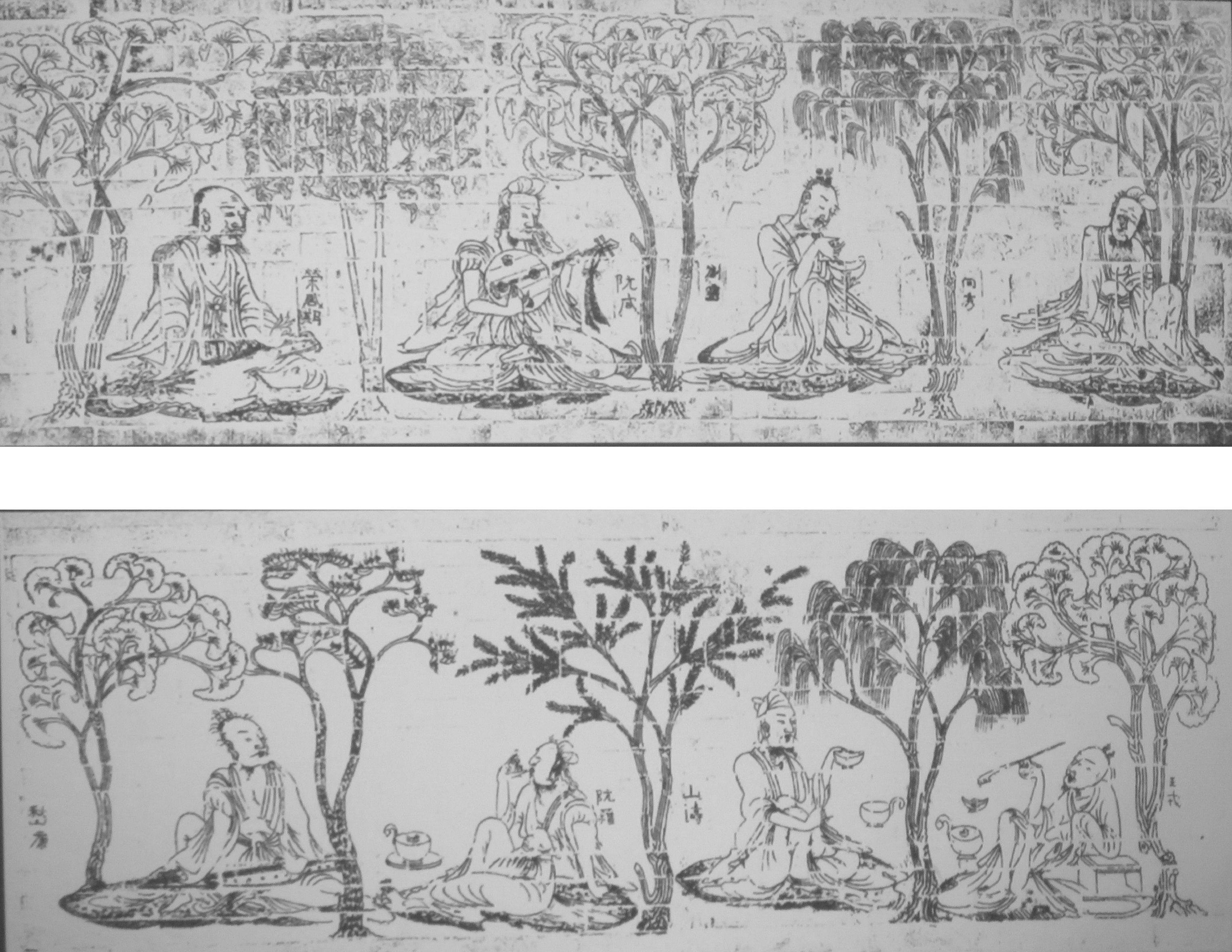 "Seven Sages of the Bamboo Grove. Several tombs near the Eastern Jin capital at modern Nanjing have pictures of the eccentric 'seven sages' depicted in the brick walls. In the example shown here, each of the figures is labeled and shown drinking, writing, or playing a musical instrument (Shaanxi Provincial Museum, Shaanxi, China)." From page 75 of East Asia: A Cultural, Social, and Political History (2006) by Patricia Ebrey, Anne Walthall, and James Palais.